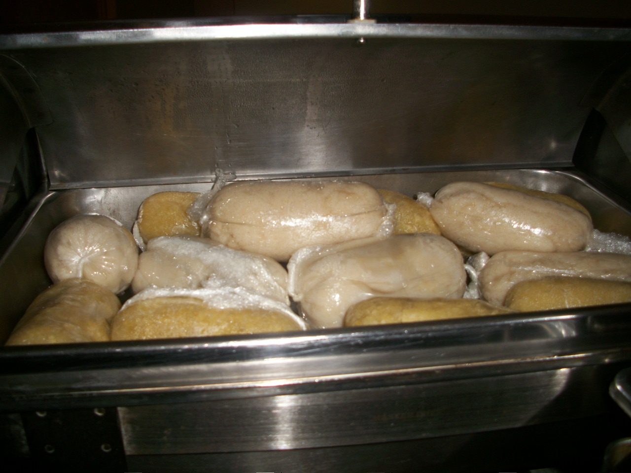 Wraps of Eba and pounded yam This is an image of food from Nigeria